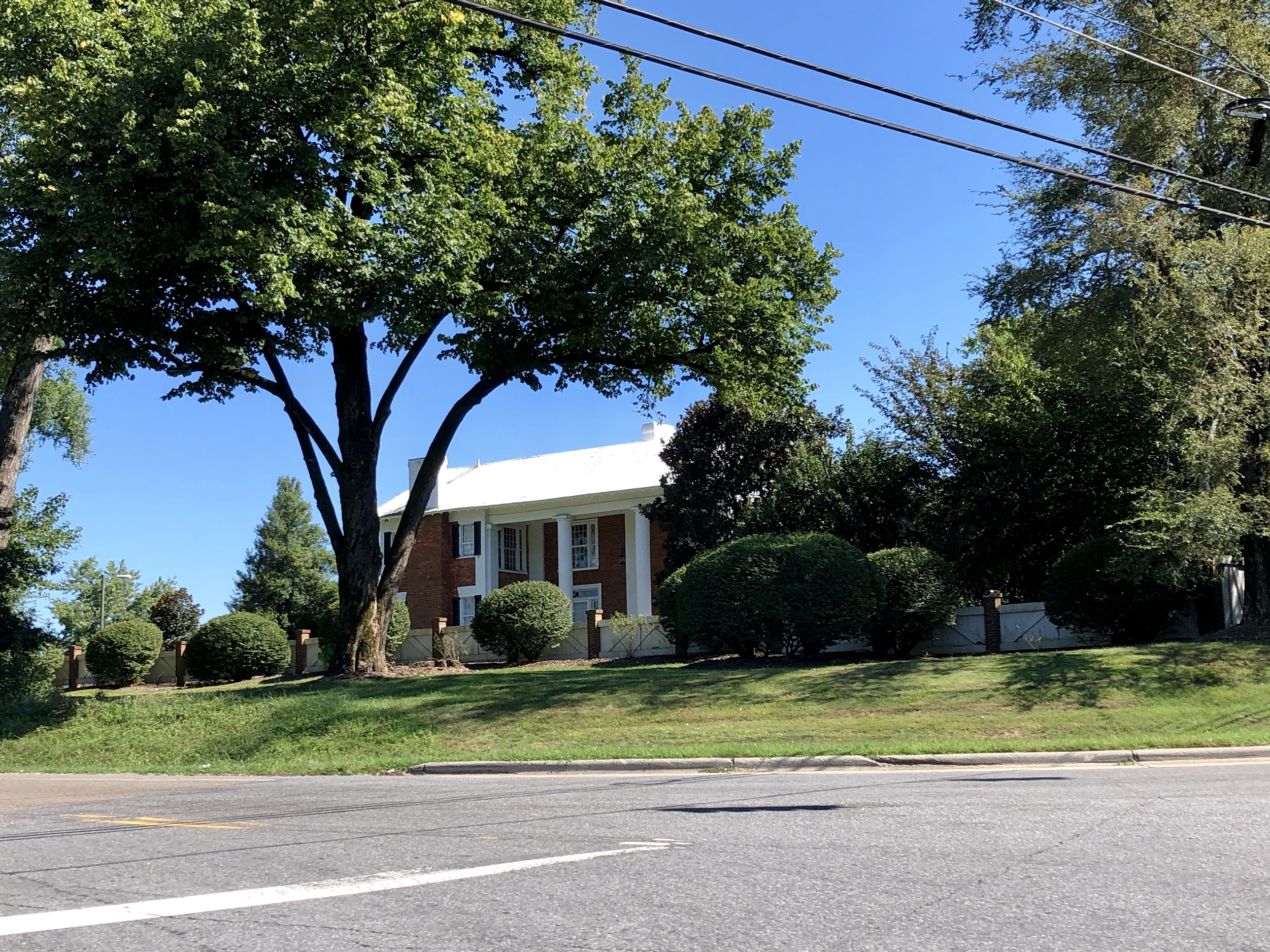 This is Magnolia Place, constructed around 1818 with a prominent addition circa 1850, which stands at the intersection of US Highway 64 and Interstate 40 just south of Morganton, North Carolina. The house was listed on the National Register of Historic Places in 1973.